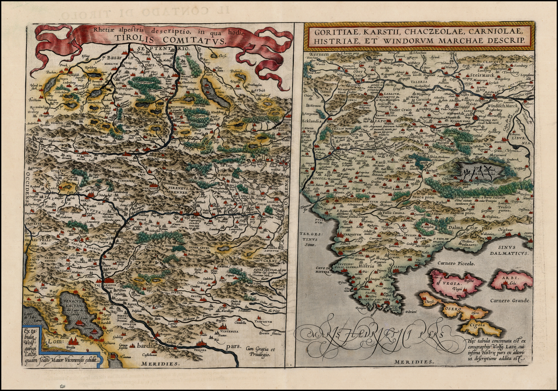 Title: Rhetiae alpestris descriptio in qua hodie Tirolis Comitatus [with] Goritiae, Karstii, Chaczeolae, Carniolae, Histriae, et Windorum Marchae Descrip. Map Maker: Abraham Ortelius